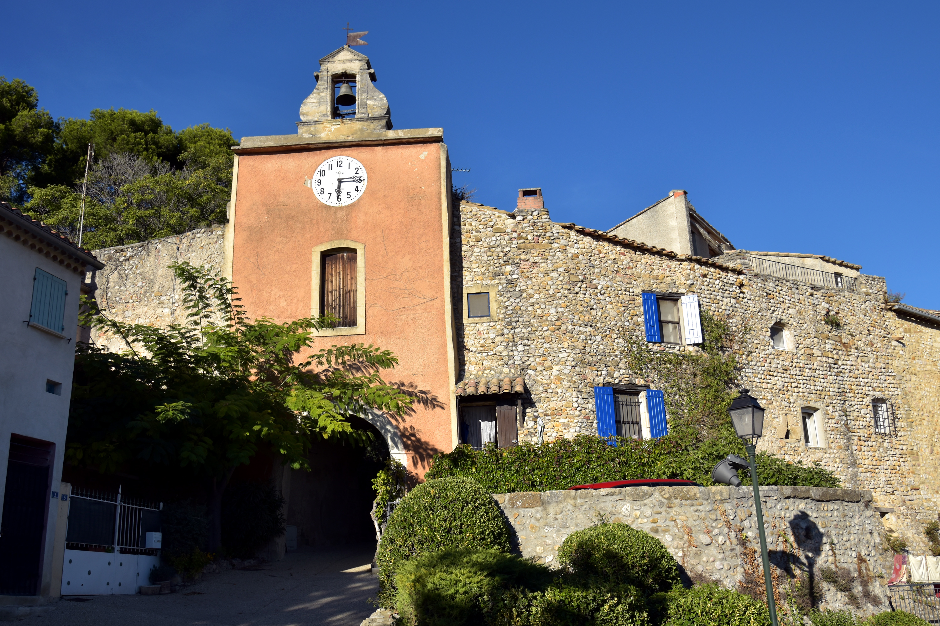 [Rasteau], [Belfry]